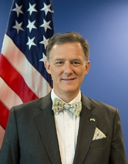 Image of George P.Kent - State Department picture